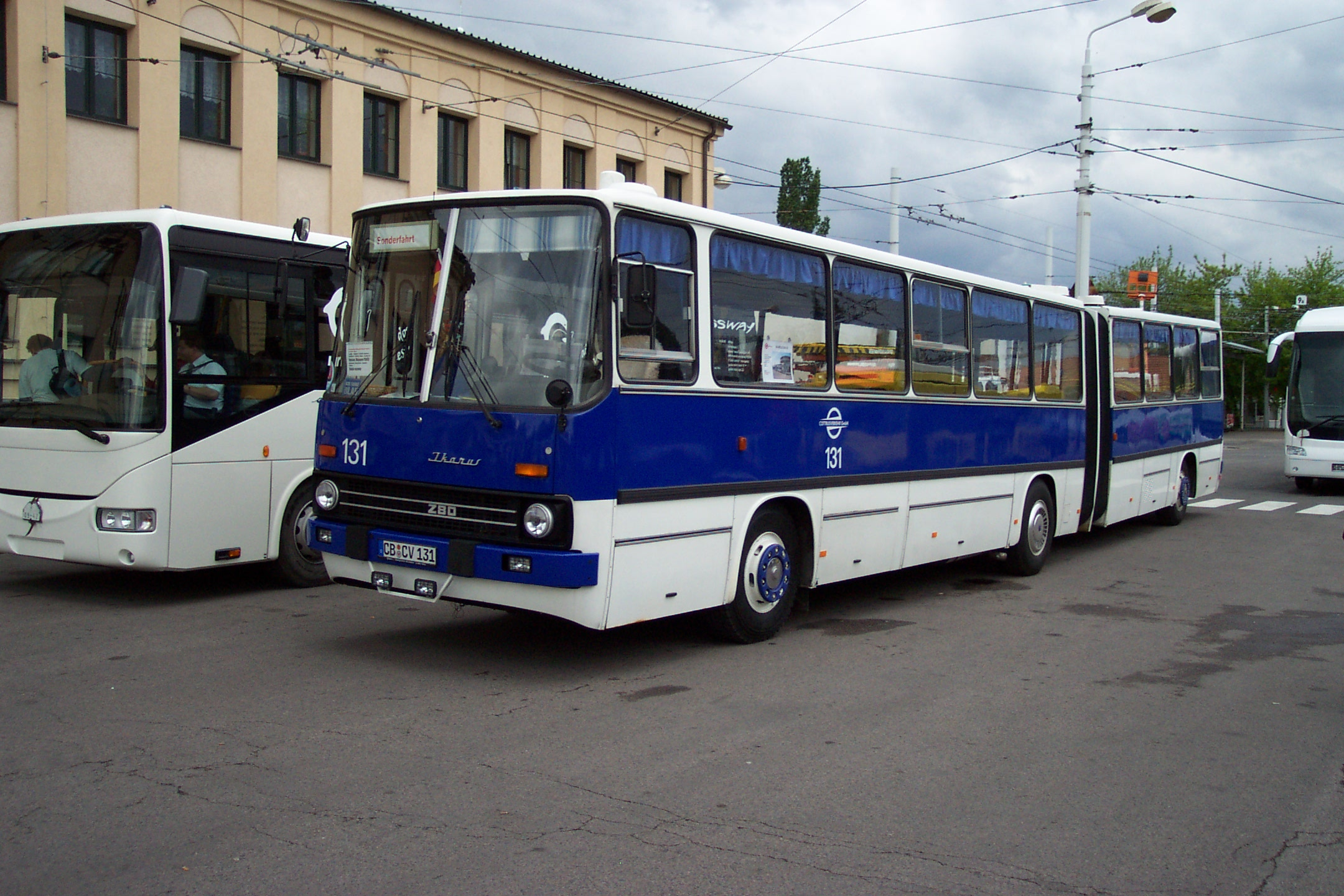 Bus type Ikarus 280, from German city of Cottbus on the celebrations of 55 years of trolleybus network in Pardubice (Czech Republic)